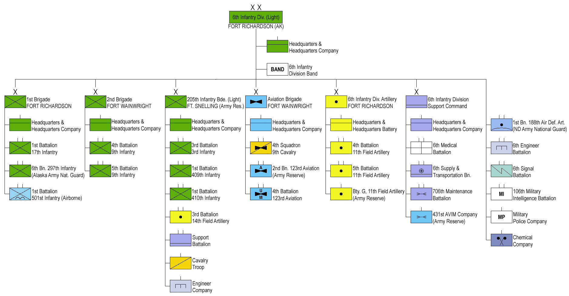 US Army 6th Infantry Division Structure in 1989